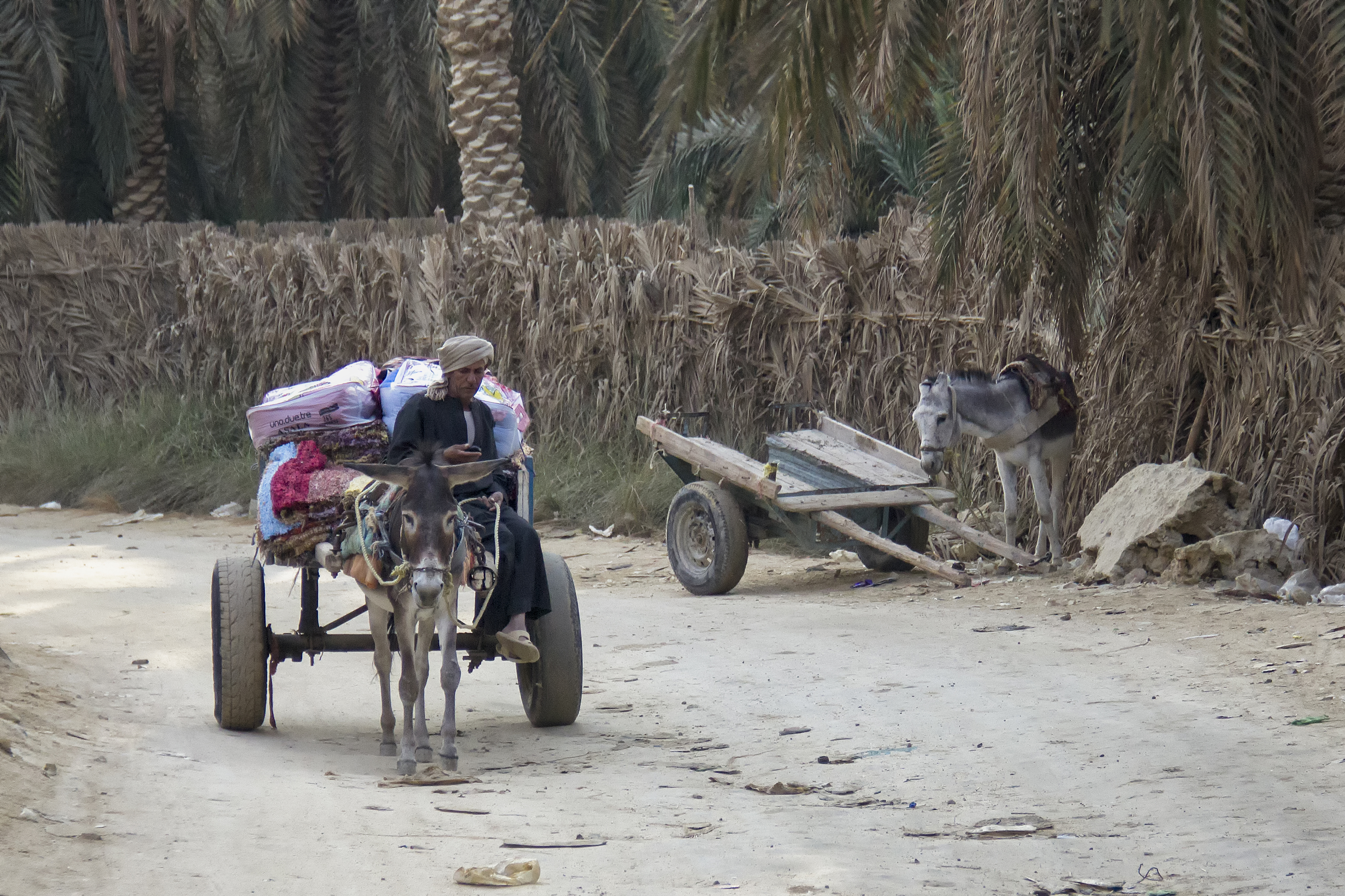 Life in Siwa streets - Siwa oasis - Egypt